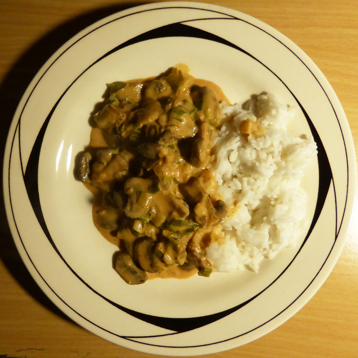 Mushroom ragout in cream sauce with rice